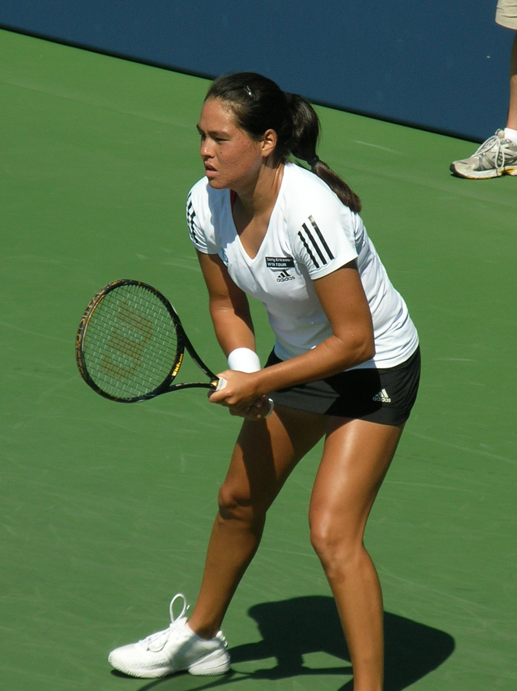 Jamie Hampton in the second round of qualifying at the Bank of the West Classic at Stanford. She defeated Bethanie Mattek-Sands 6-4, 6-3.